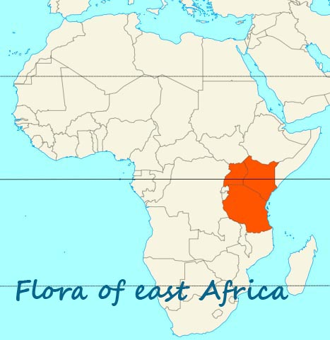 Area covered by the Flora of east tropical Africa